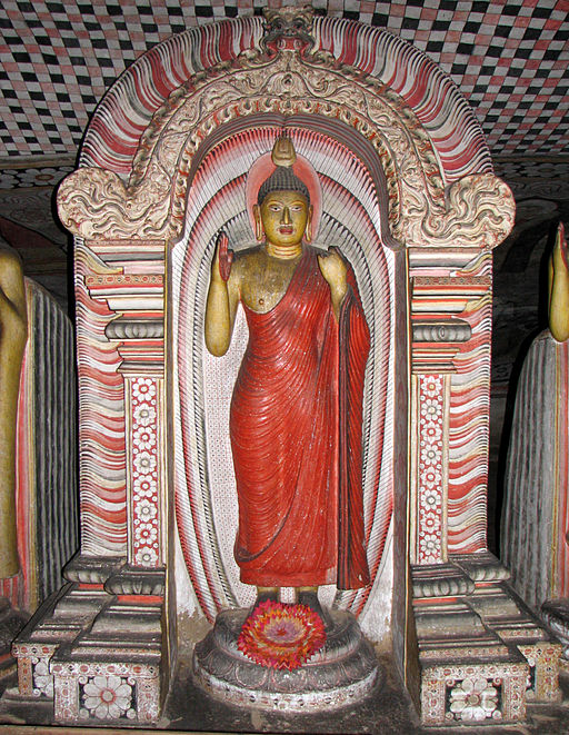 සිංහල: බුදු සිරසට ඉහලින් යෙදූ මකර ‍තොරණ Makara pandol over the image of Lord Buddha in Dambulla cave temple